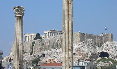 Acropolis from Olympeion